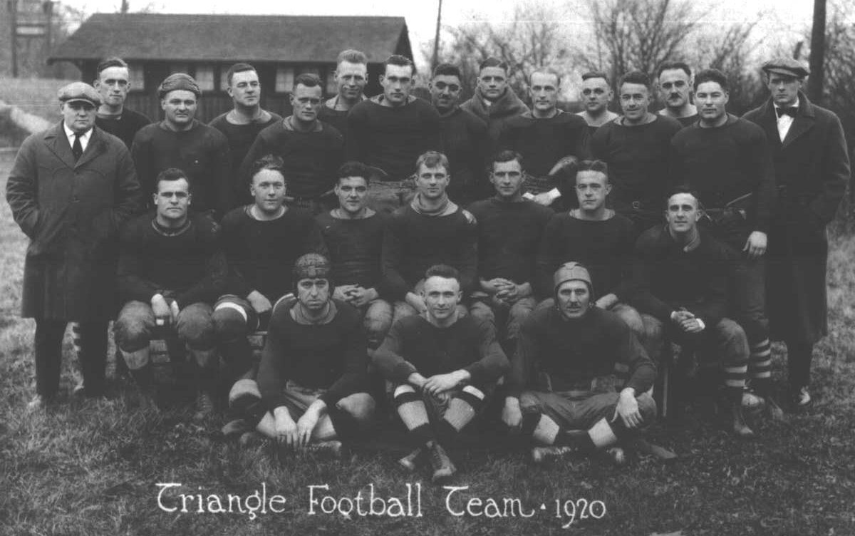 A team photograph of the 1920 Dayton Triangles of the American Professional Football Association—later named the National Football League